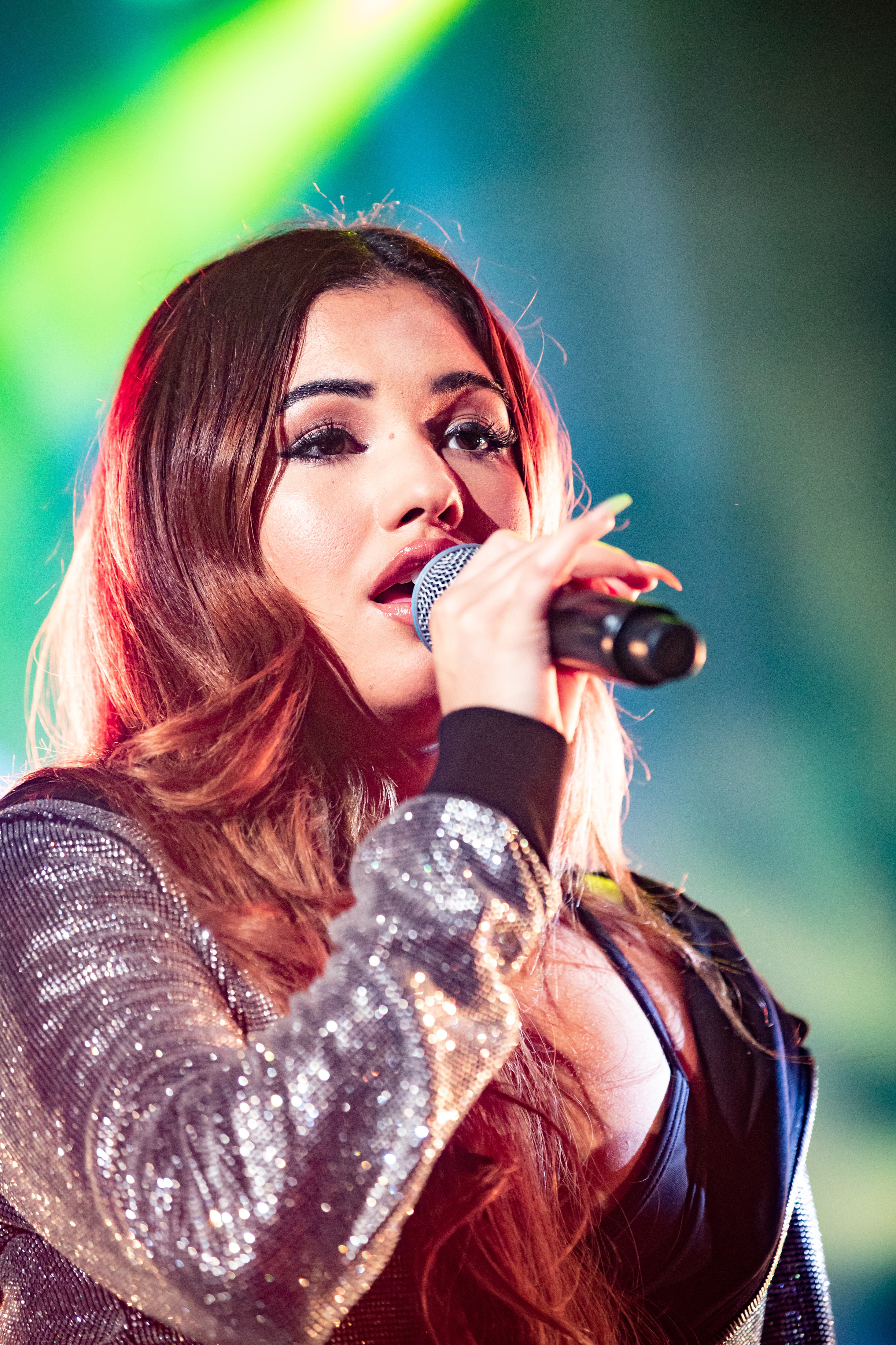 British-Swedish singer Mabel at the SWR3 New Pop Festival 2018